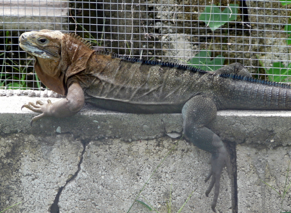 cyclura collei male